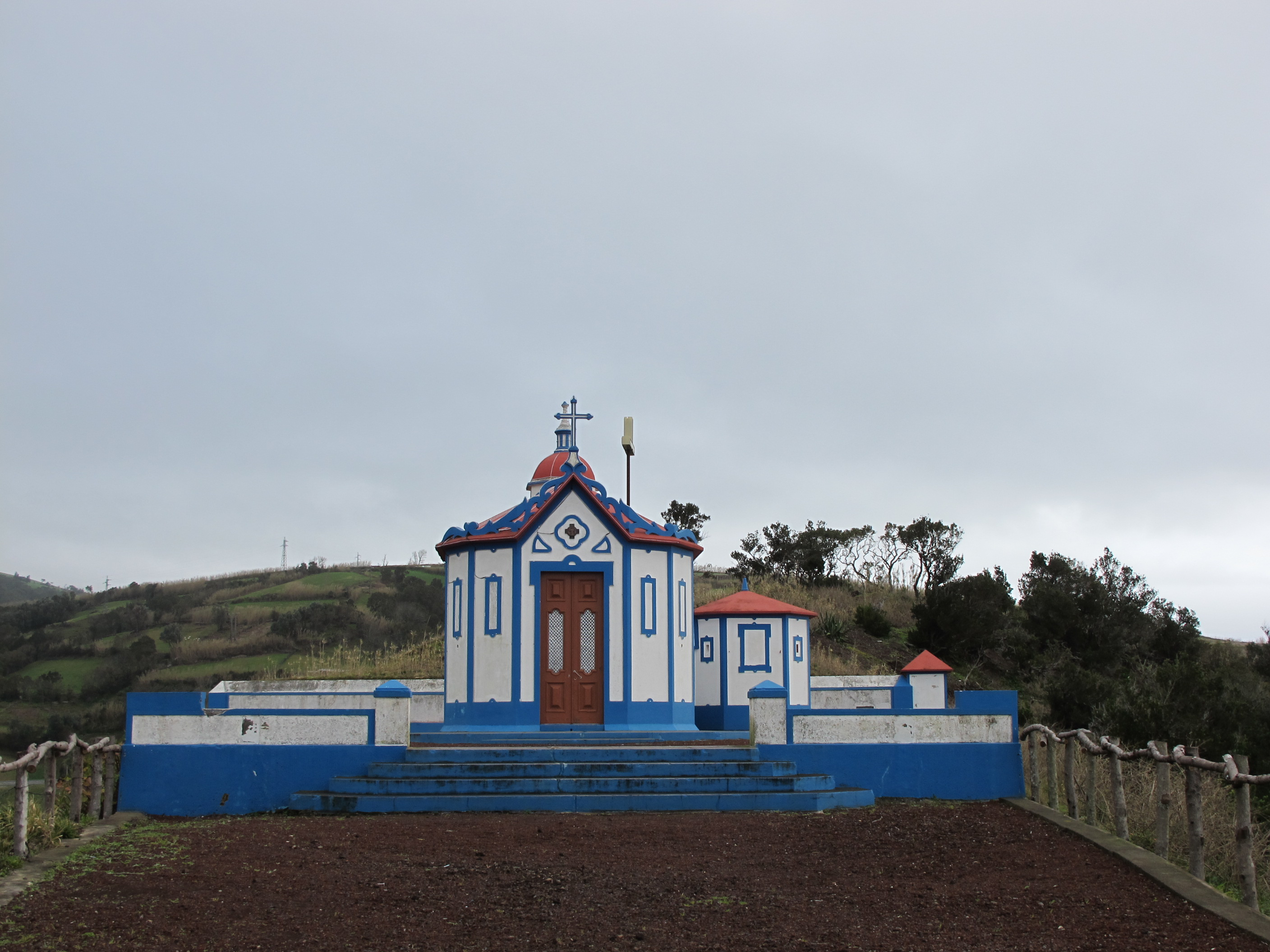 Church on the Monte Santo Ermida Miradouro